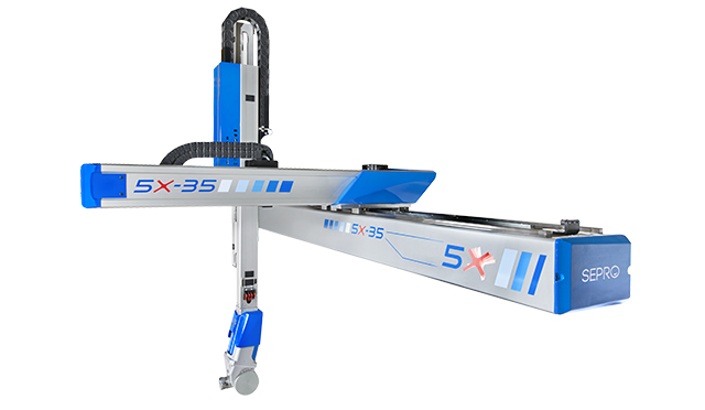 Industrial robot, model SEPRO 5x-35